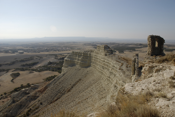 Landscape and far end of the fortress seen from the the ruins of the castle's keep.